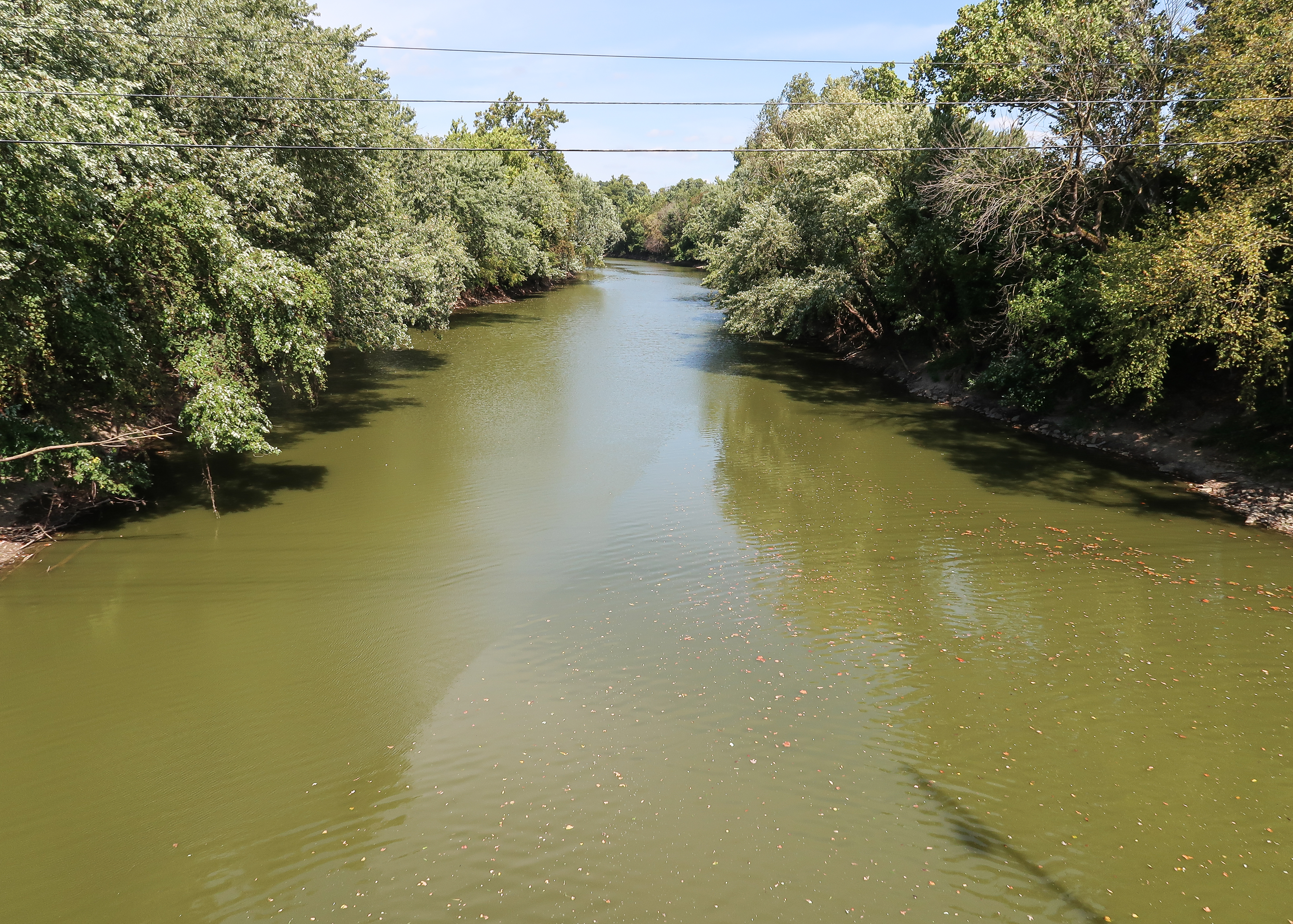 The St. Marys River as viewed from the north side of Bluffton Road in Fort Wayne, Indiana.